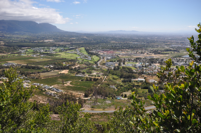 Constantia Valley South Africa